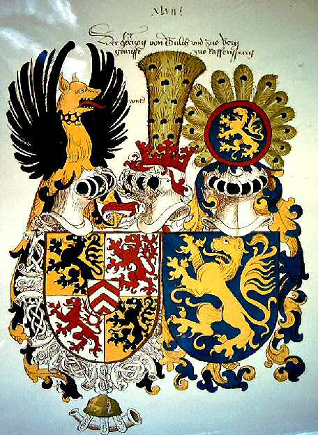 Coat of arms of Jülich und Berg (left) with the chain of the Hausritterorden vom Heiligen Hubertus and Gelre (right).